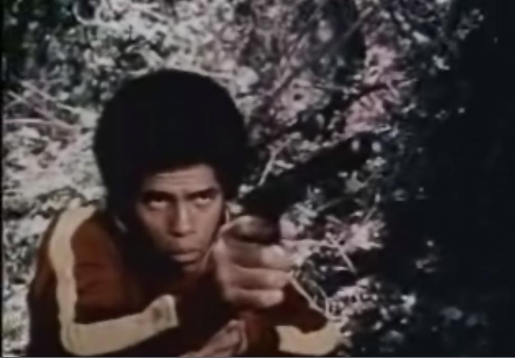 Jim kelly is the Black Samurai. Screenshot.